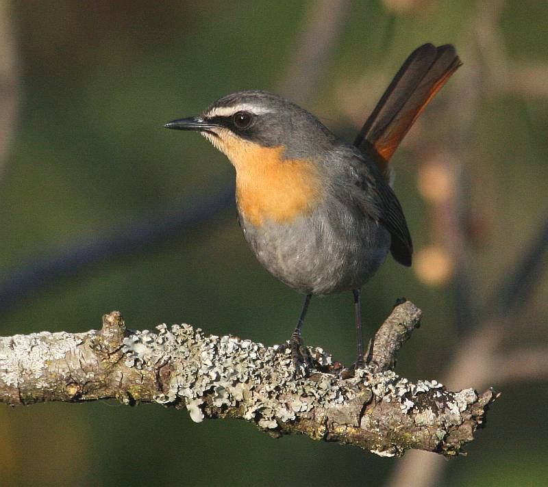 Location: Pietermaritzburg, South Africa More information on this species at